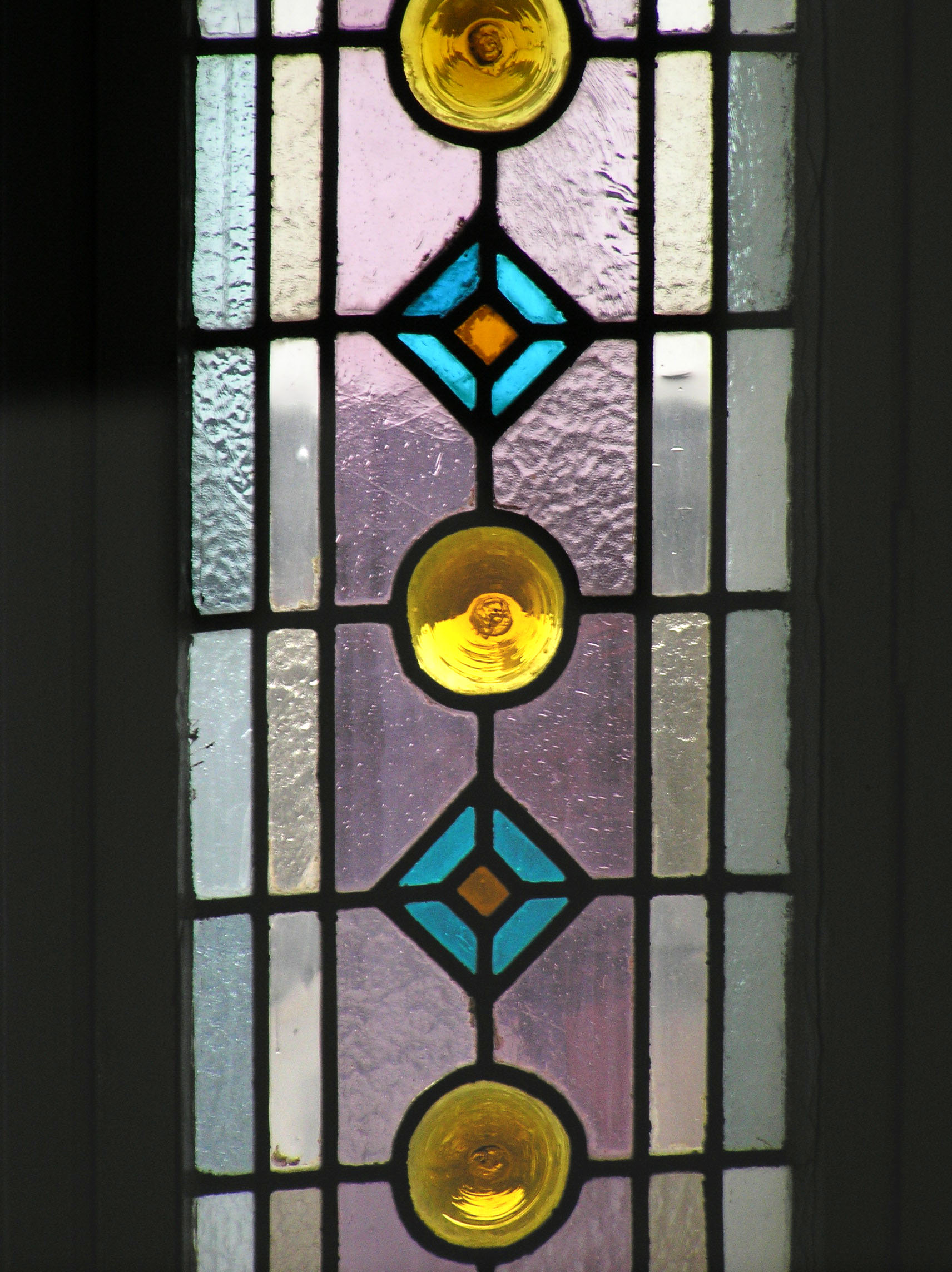 Stained glass window in Toruń (5 Piastowska Str.), turn of 19th and 20th century